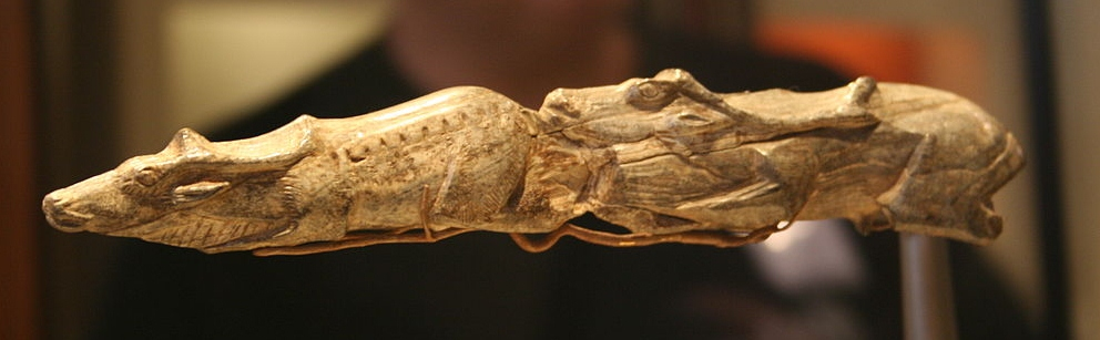 Carved bones from the GLAM event at the British Museum's Ice Age exhibit.